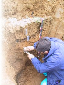 Pedologist at work